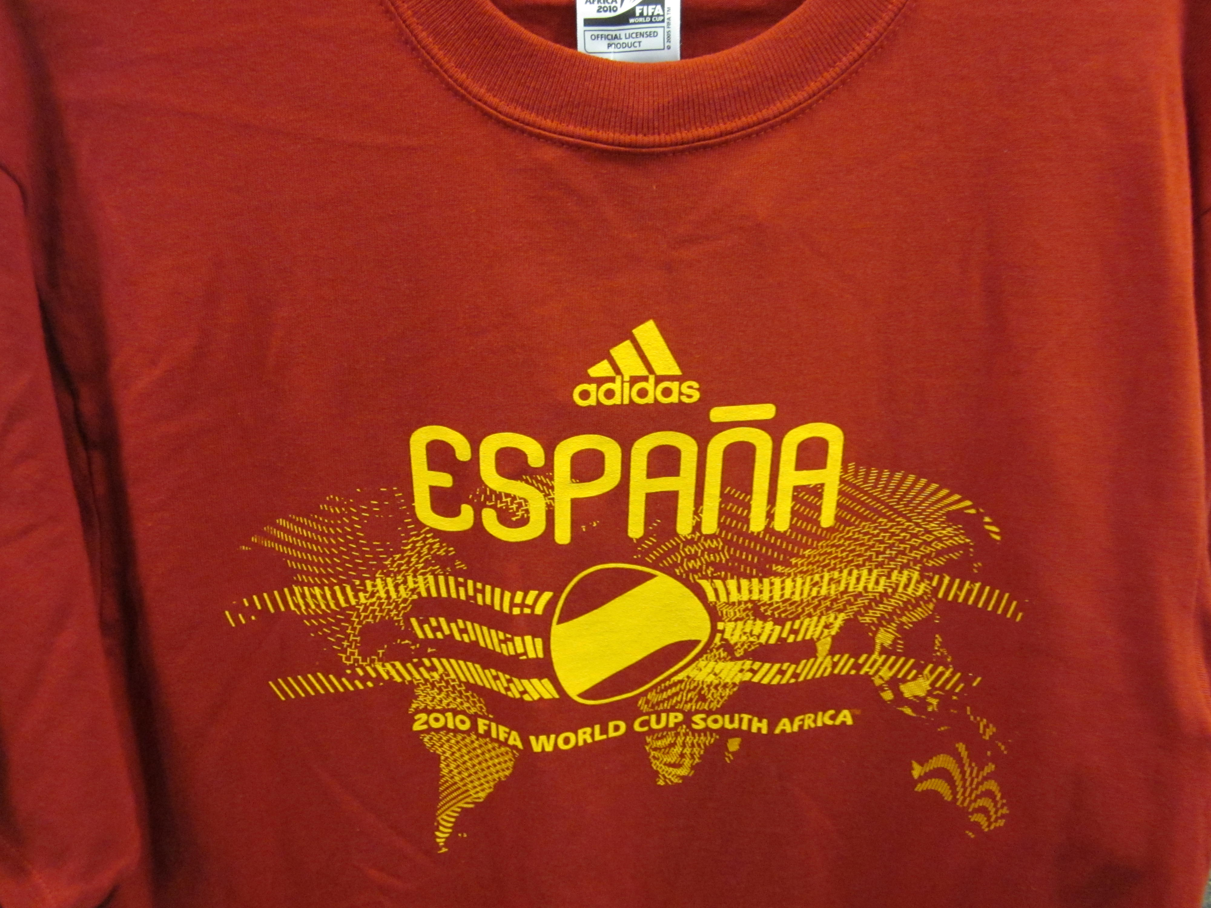 An Adidas 2010 World Cup Spain shirt.